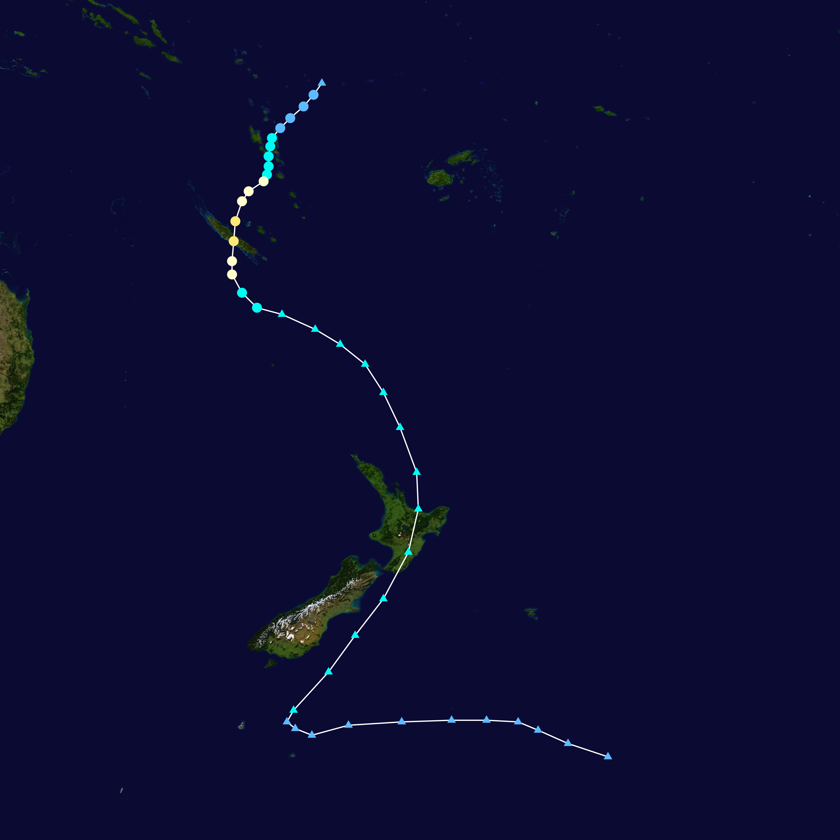 Track map of Severe Tropical Cyclone Cook of the 2016-17 South Pacific cyclone season. The points show the location of the storm at 6-hour intervals. The colour represents the storm's maximum sustained wind speeds as classified in the Saffir–Simpson scale (see below), and the shape of the data points represent the nature of the storm, according to the legend below. Saffir–Simpson scale Tropical depression≤38 mph≤62 km/h Category 3111–129 mph178–208 km/h Tropical storm39–73 mph63–118 km/h Category 4130–156 mph209–251 km/h Category 174–95 mph119–153 km/h Category 5≥157 mph≥252 km/h Category 296–110 mph154–177 km/h Unknown Storm type Tropical cyclone Subtropical cyclone Extratropical cyclone / Remnant low / Tropical disturbance / Monsoon depression